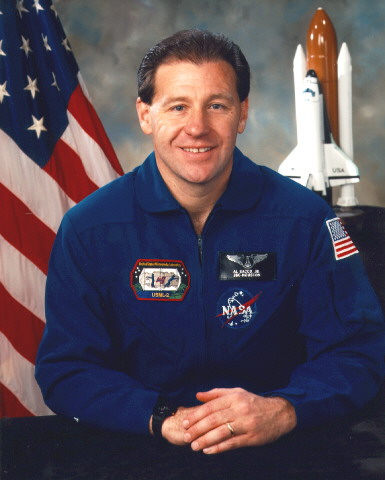 portrait astronaut Albert Sacco